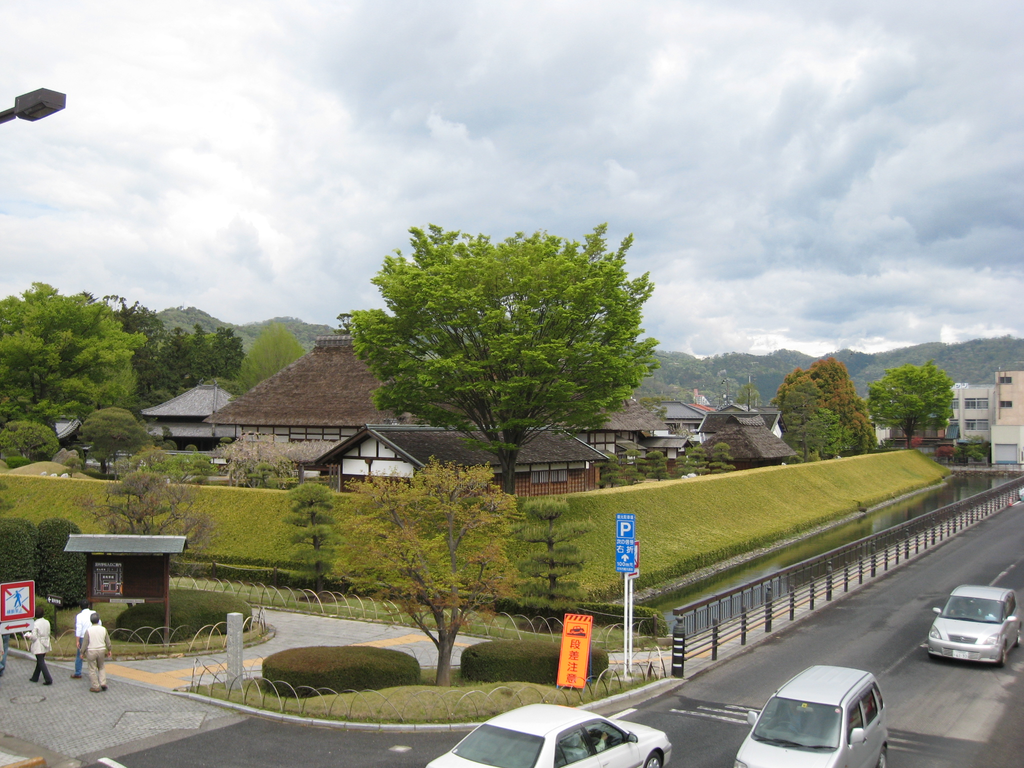 Ashikaga Gakko(or school),which was established in the 15th century in Ashikaga,Tochigi prefecture,Japan, taken at 19,April,2008 by Taketarou.